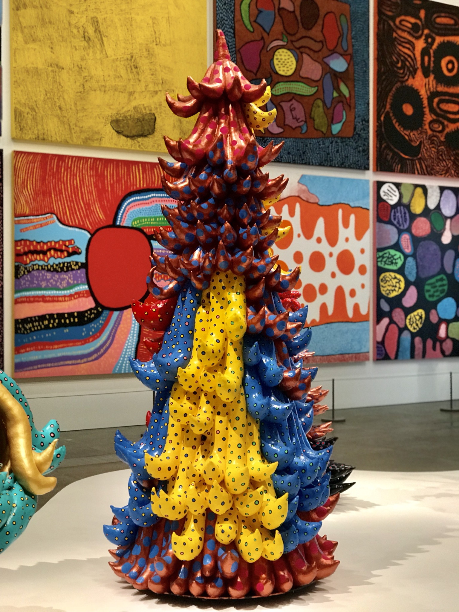 YAYOI KUSAMA exhibition LIFE IS THE HEART OF A RAINBOW at Gallery of Modern Art, Brisbane